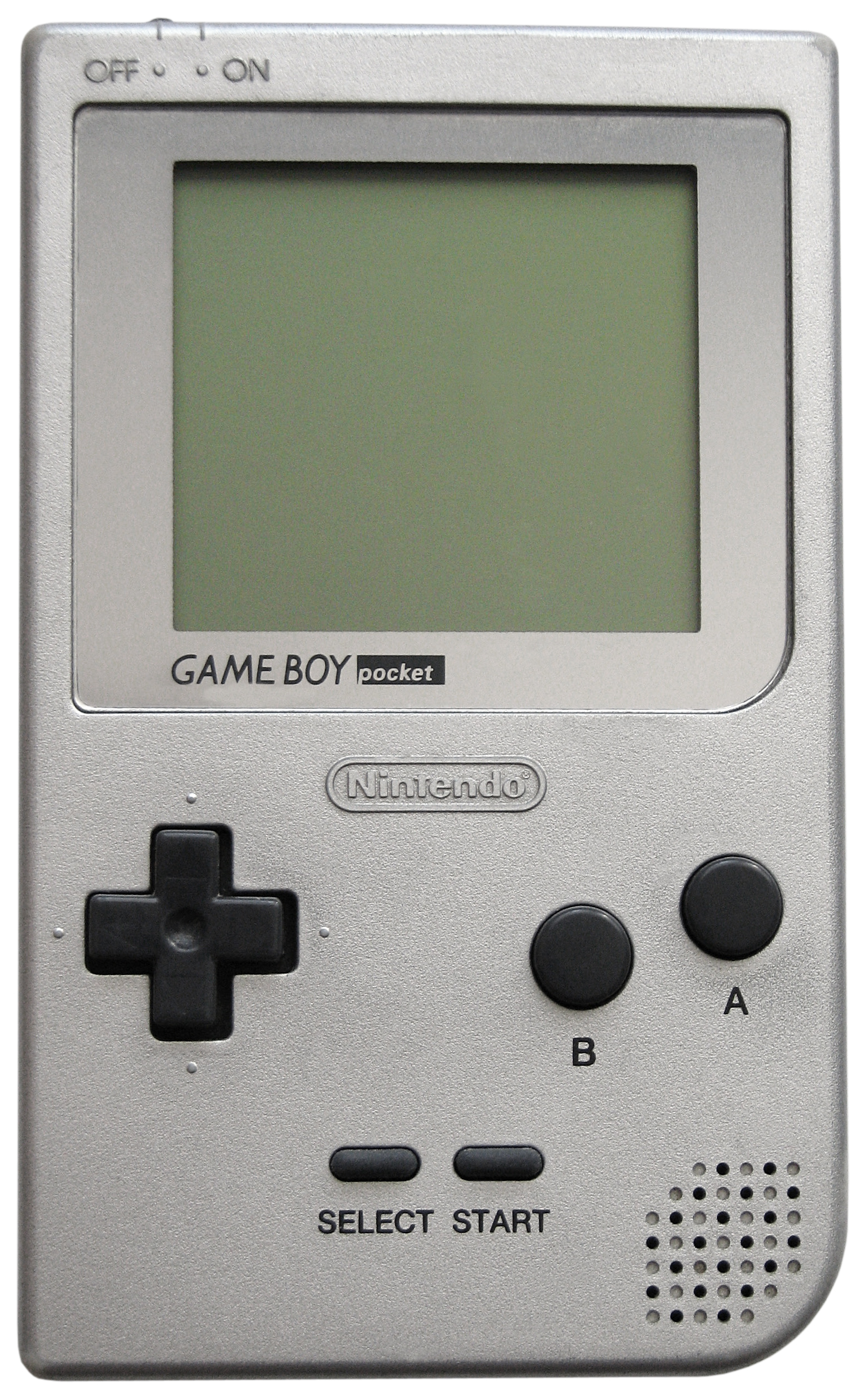 Game Boy Pocket - Silver